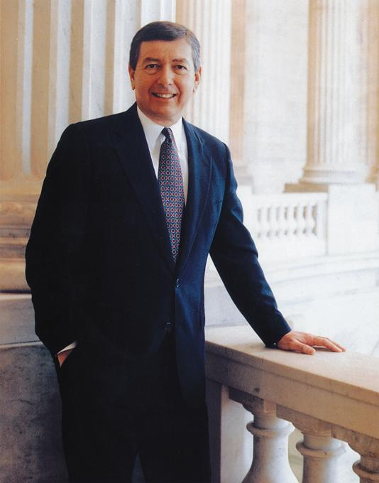 Official senatorial photo of John Ashcroft in color.